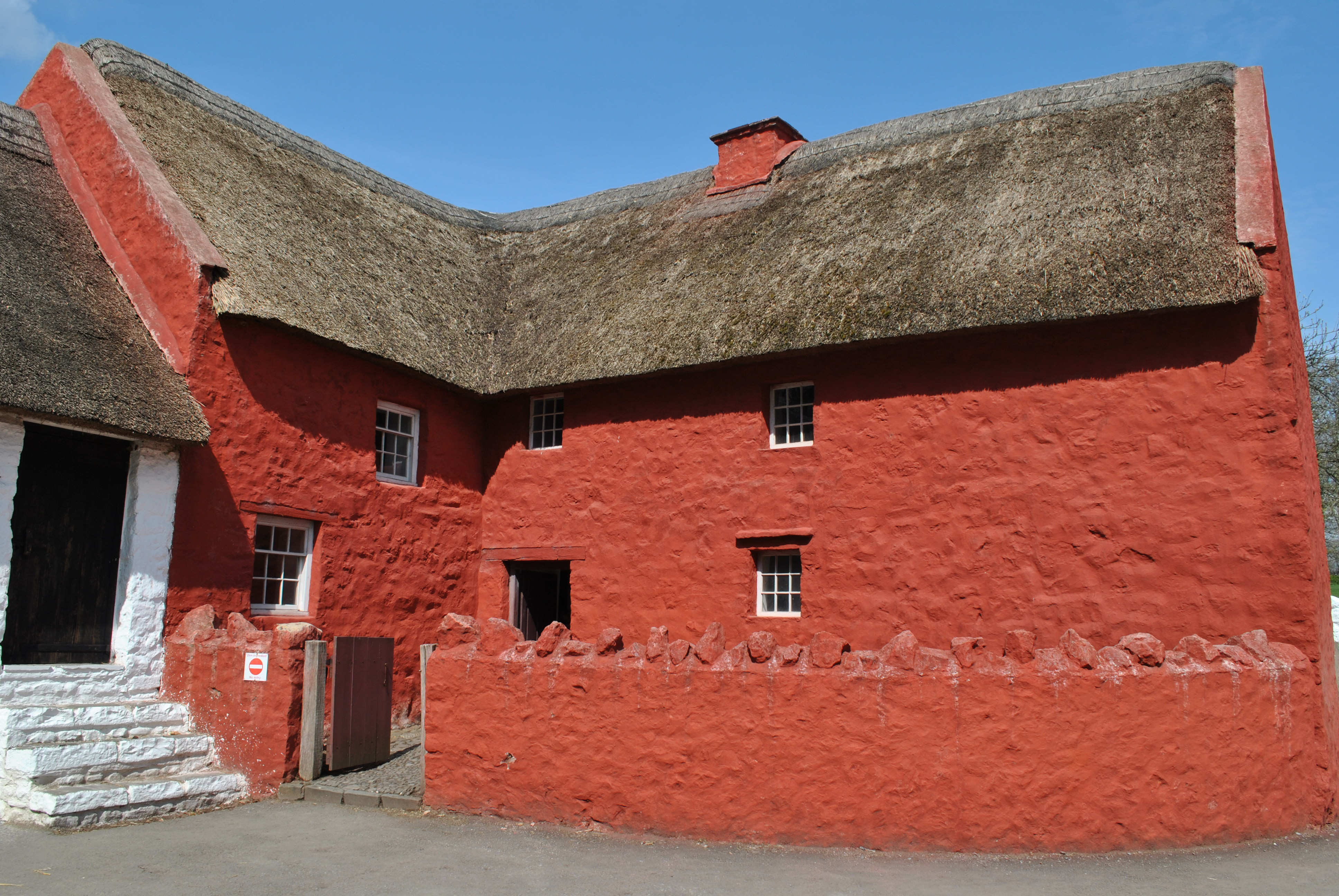 Kennixton Farmhouse at St Fagans National History Museum, Cardiff, Wales.